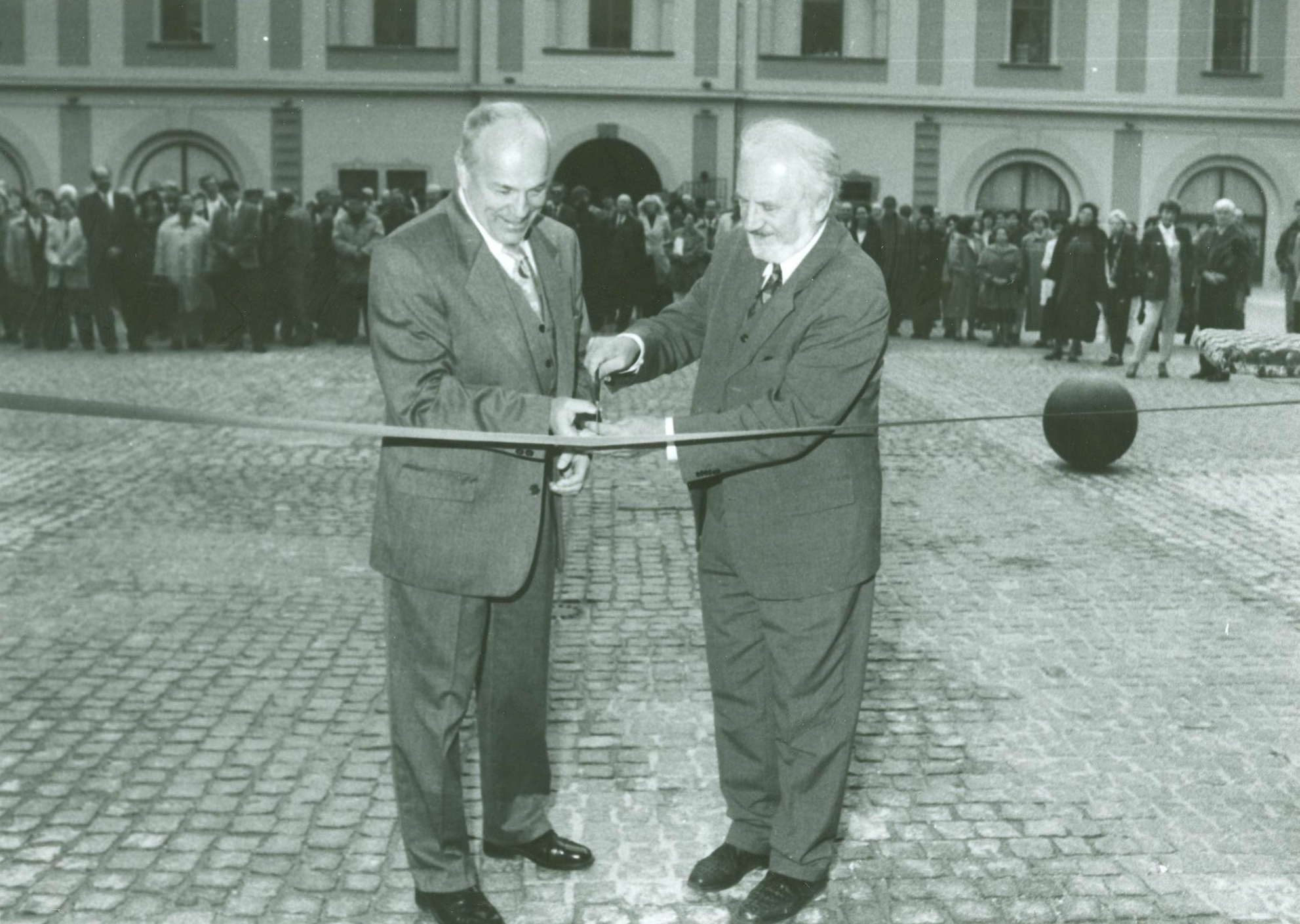 Rector of Palacký University Lubomír Dvořák and Professor Josef Jařab during opening ceremony of the Information centre of Palacký University in Olomouc, Czech Republic.